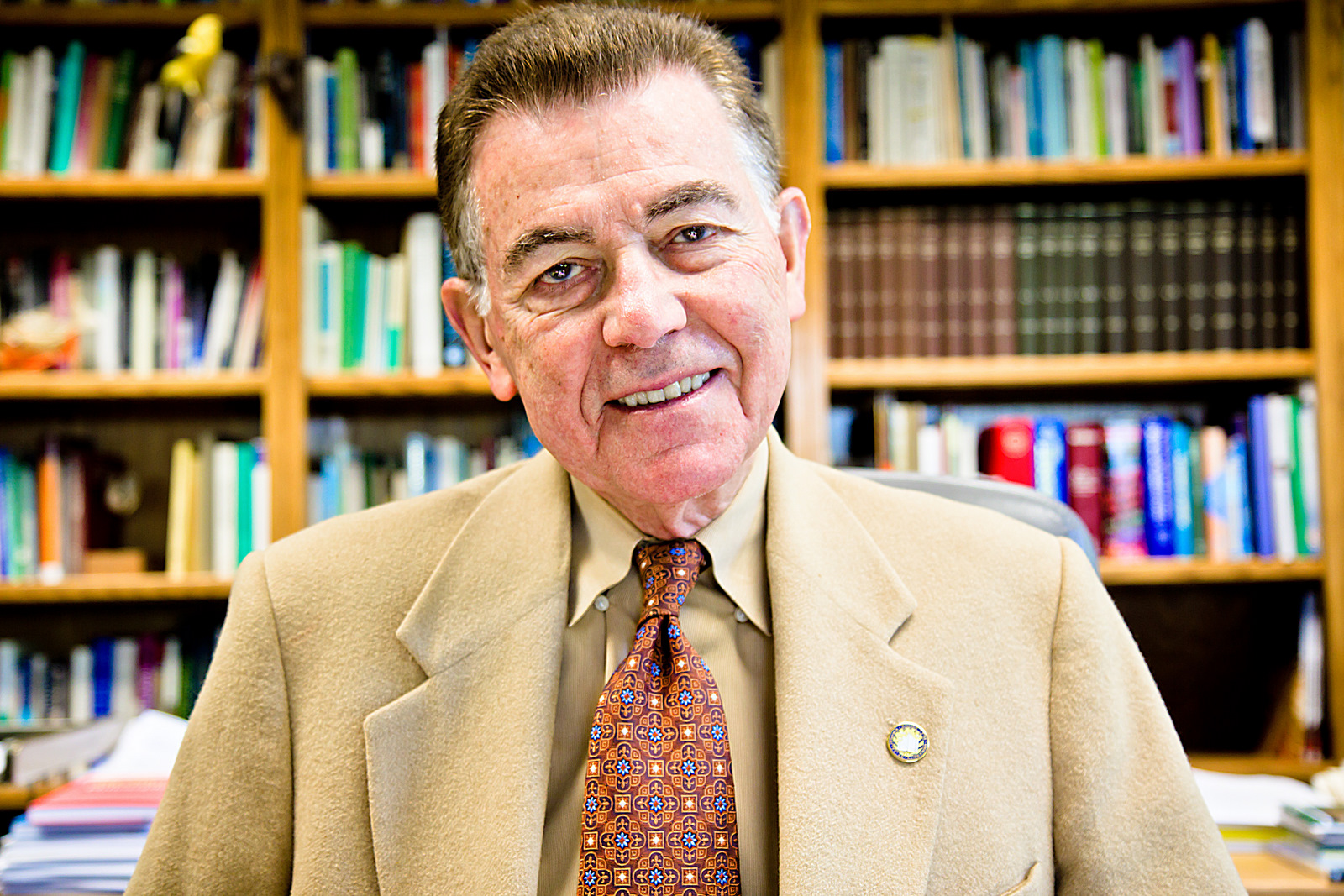 Dr. Ayala's portrait